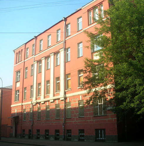 luceum 1303, Moscow, Russia